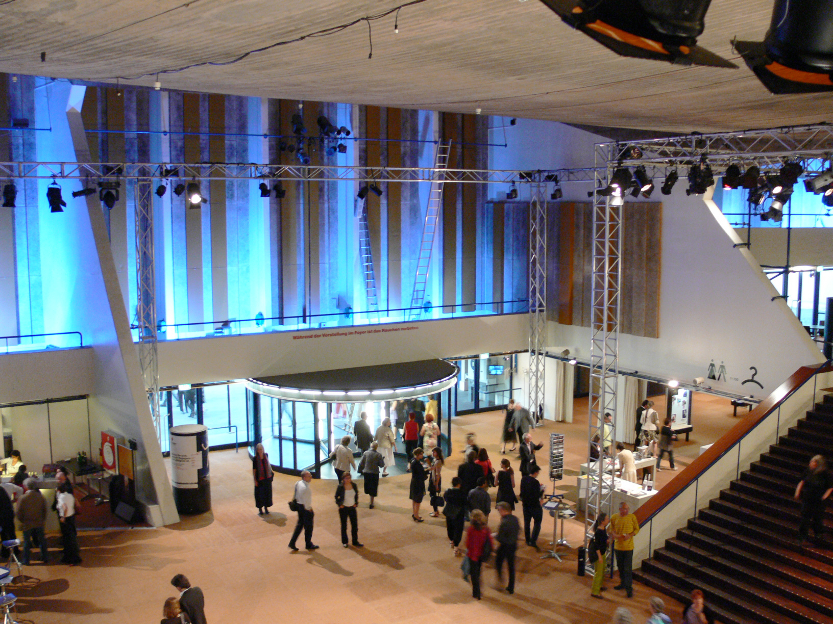 Theater Basel, Foyer